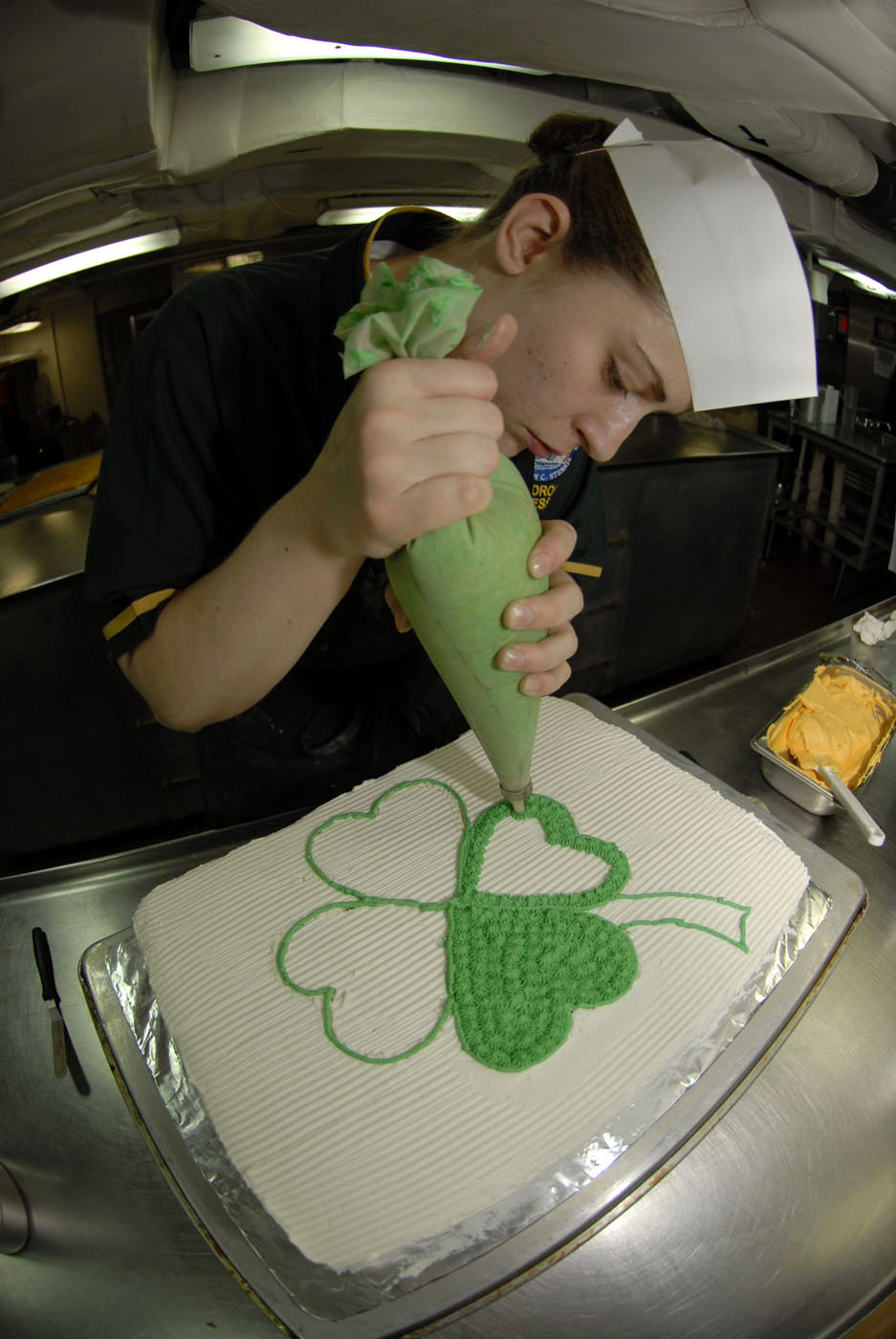 PACIFIC OCEAN (March 17, 2009) Culinary Specialist 3rd Class Rechele Rosposa, from Bremerton, Wash., decorates a Saint Patrick's Day cake in the ship's bake shop aboard the aircraft carrier USS John C. Stennis (CVN 74). John C. Stennis is on a scheduled six-month deployment to the western Pacific Ocean. (U.S. Navy photo by Mass Communication Specialist 3rd Class Kenneth Abbate/ Released)